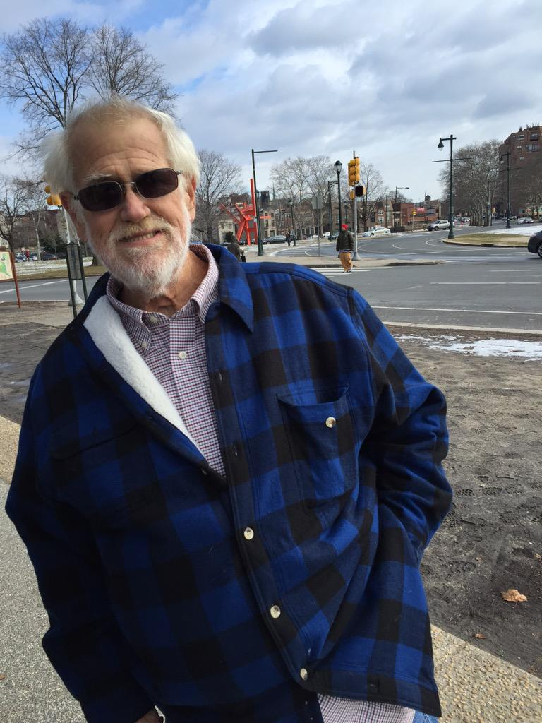 Angry Grandpa in Philadelphia, Pennsylvania in 2015